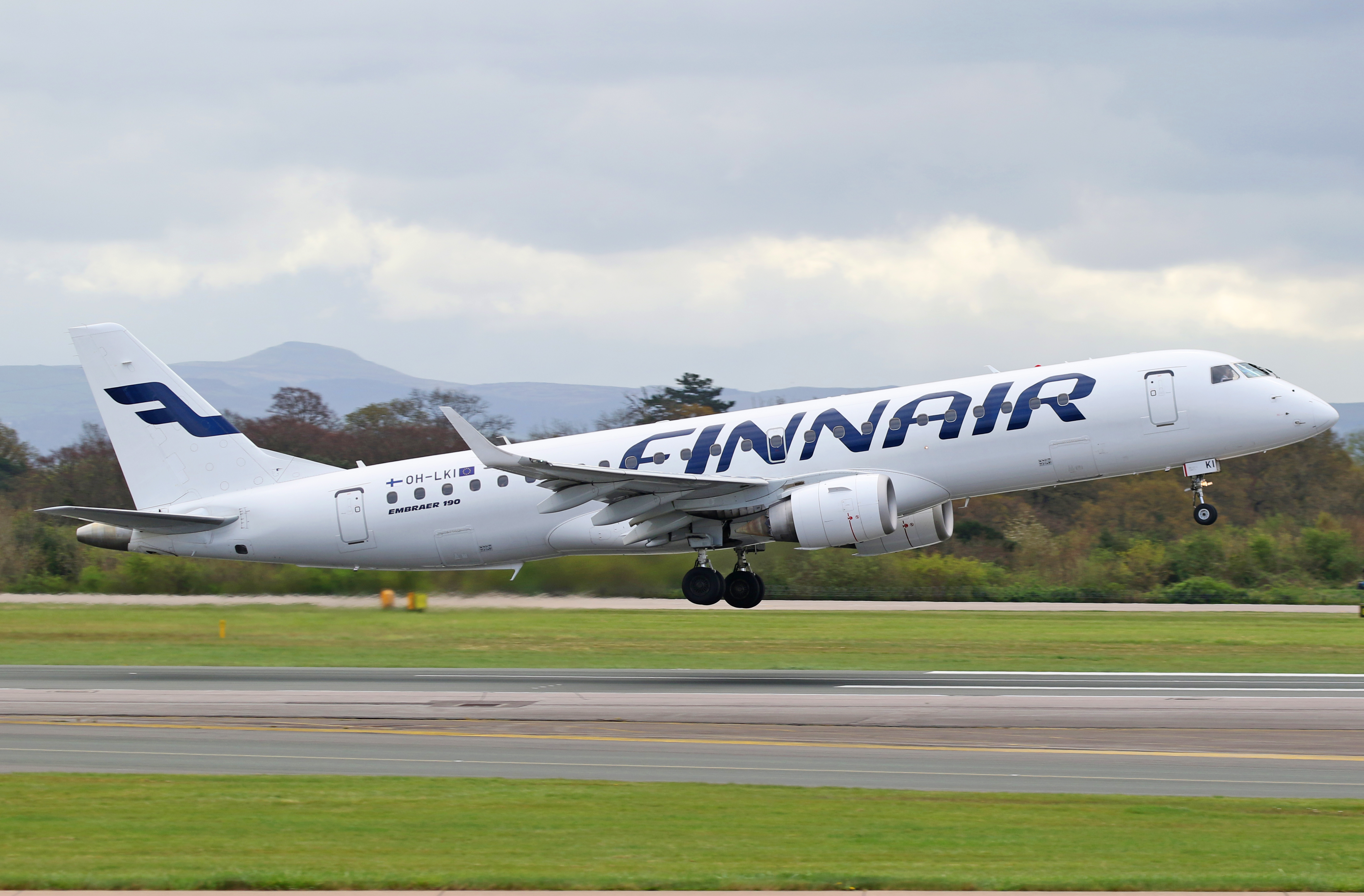 Manchester Airport